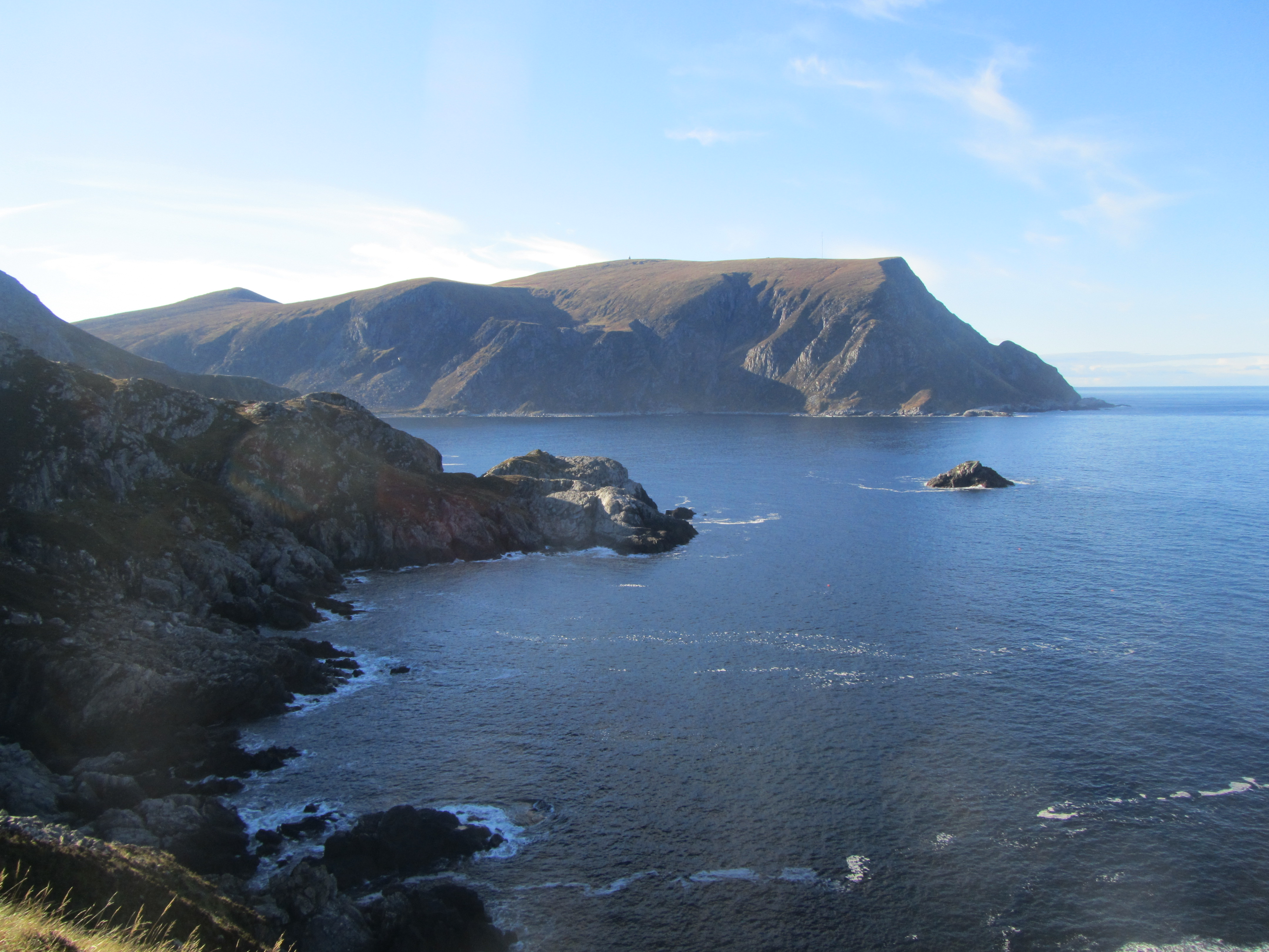 Westcapeplateau